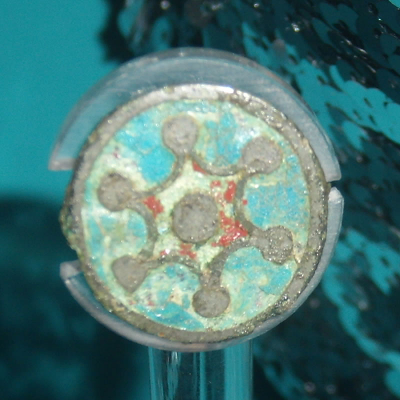 Brooch, bronze with enamel, found in the Roman villa of Keston; Fourth Century, now in the Museum of London